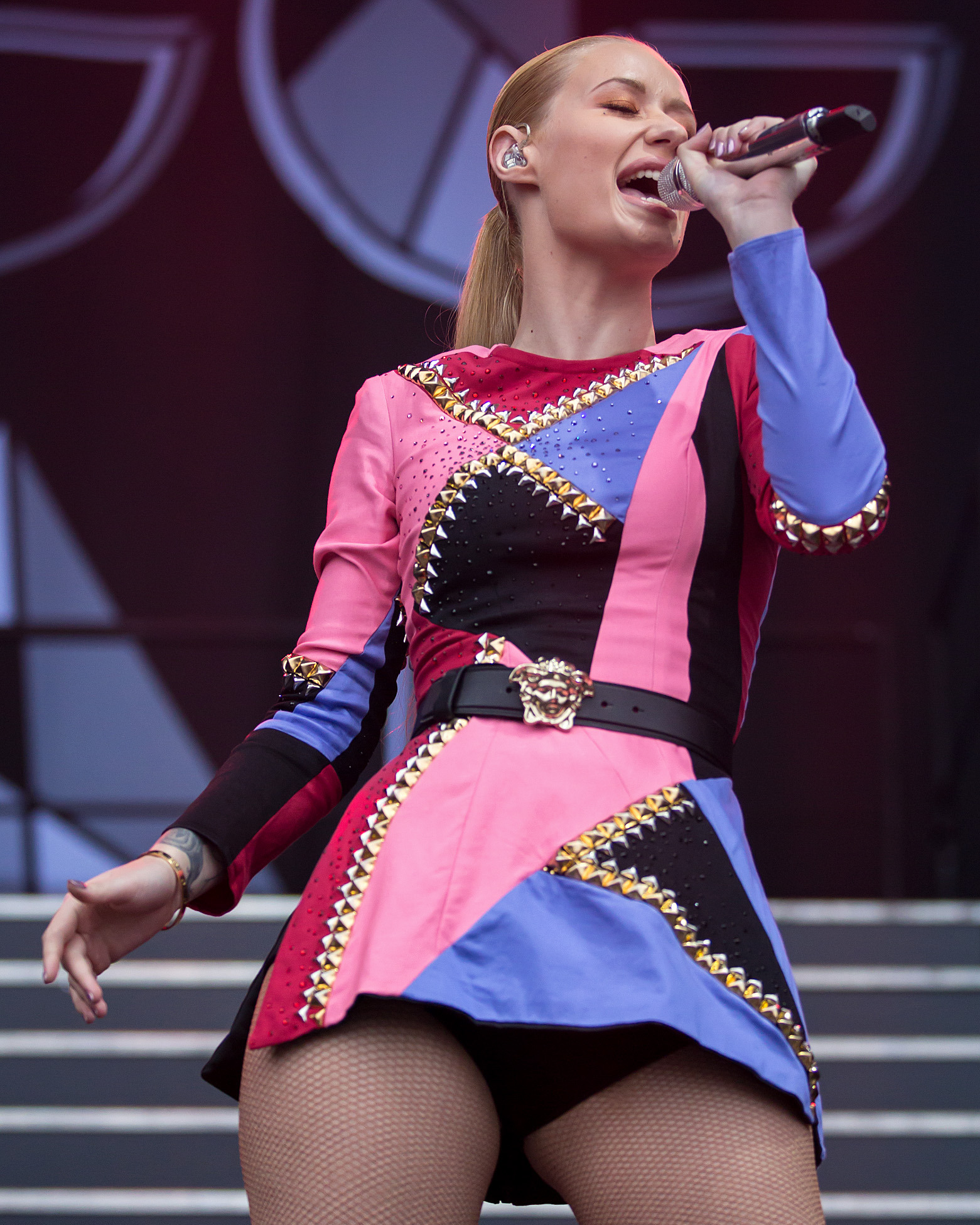 Australian hip hop artist Iggy Azalea performing at the ACL Music Festival, 2014